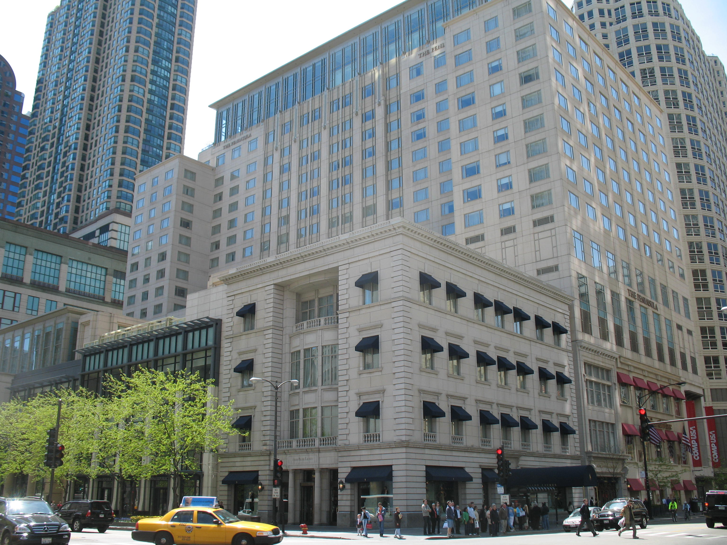 Polo Ralph Lauren Store at the corner - Banana Republic - Peninsula Hotel. Right the Chicago Avenue, left the Michigan Ave.